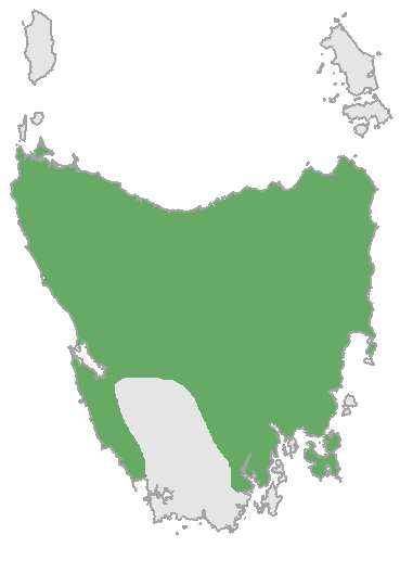 Range map of Thylacine in tasmania